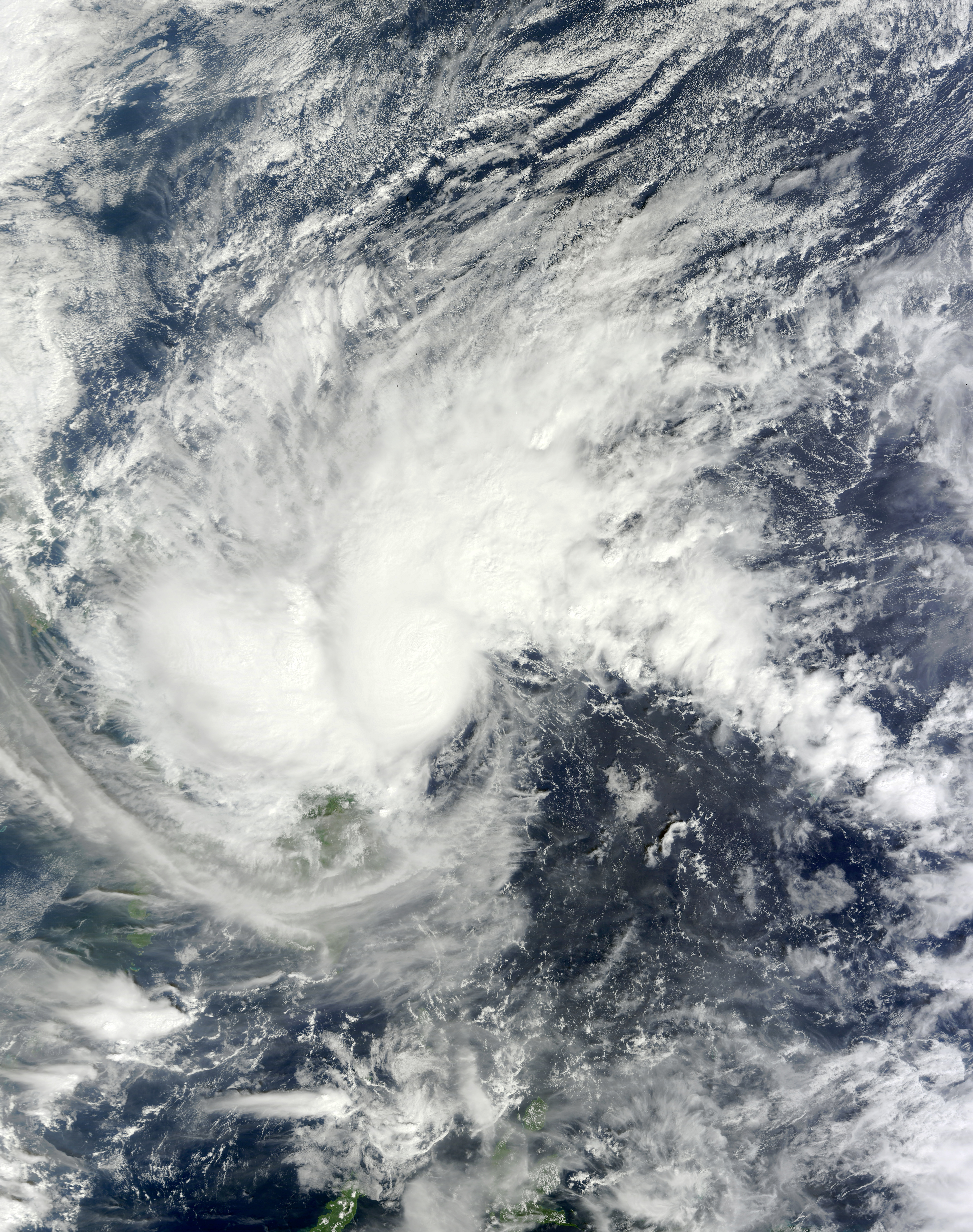 Tropical Storm Wukong on December 25, 2012